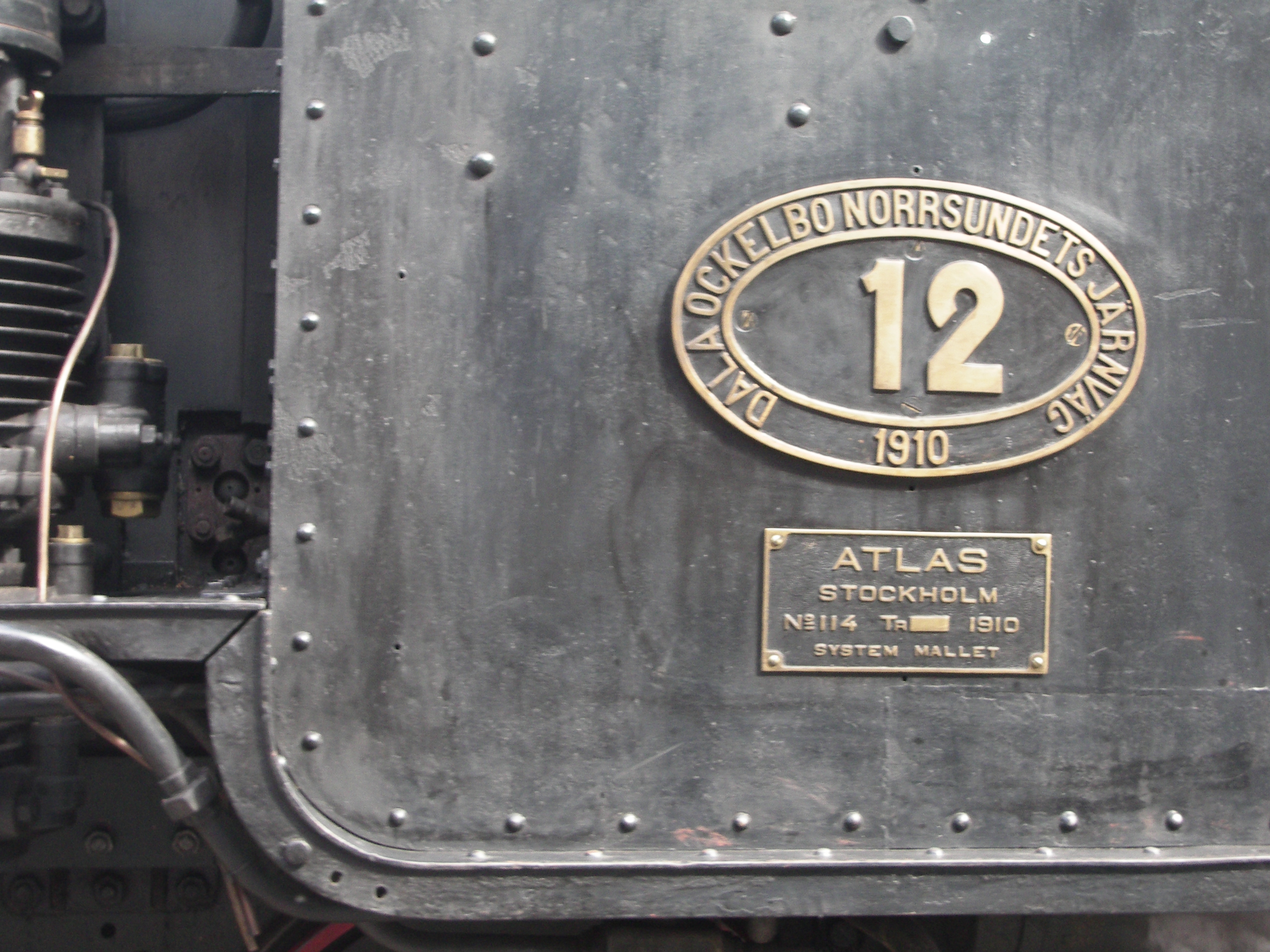 Locomotive DONJ No 12, a Mallet locomotive, at Jädraås in Sweden